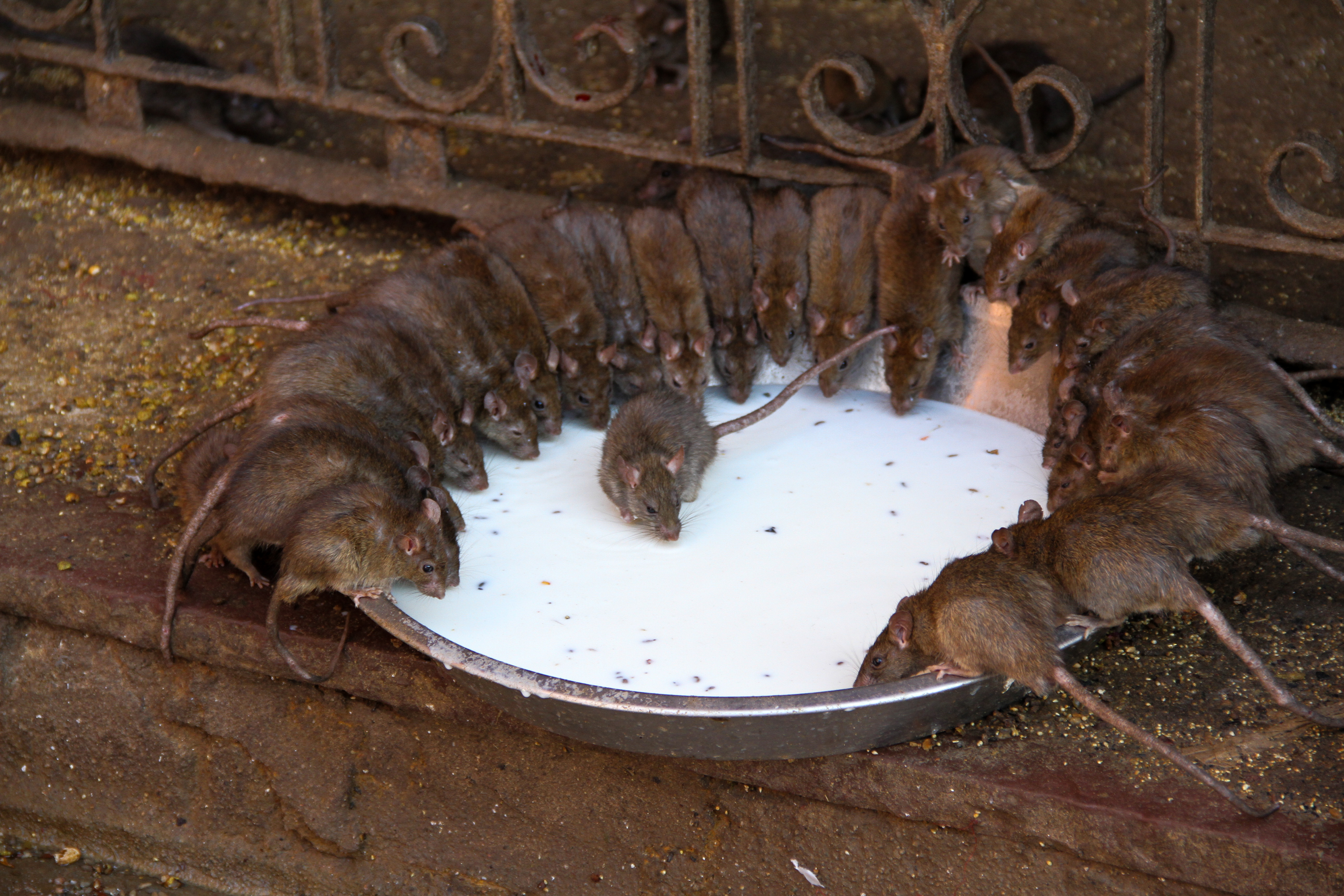 Temple of Rats